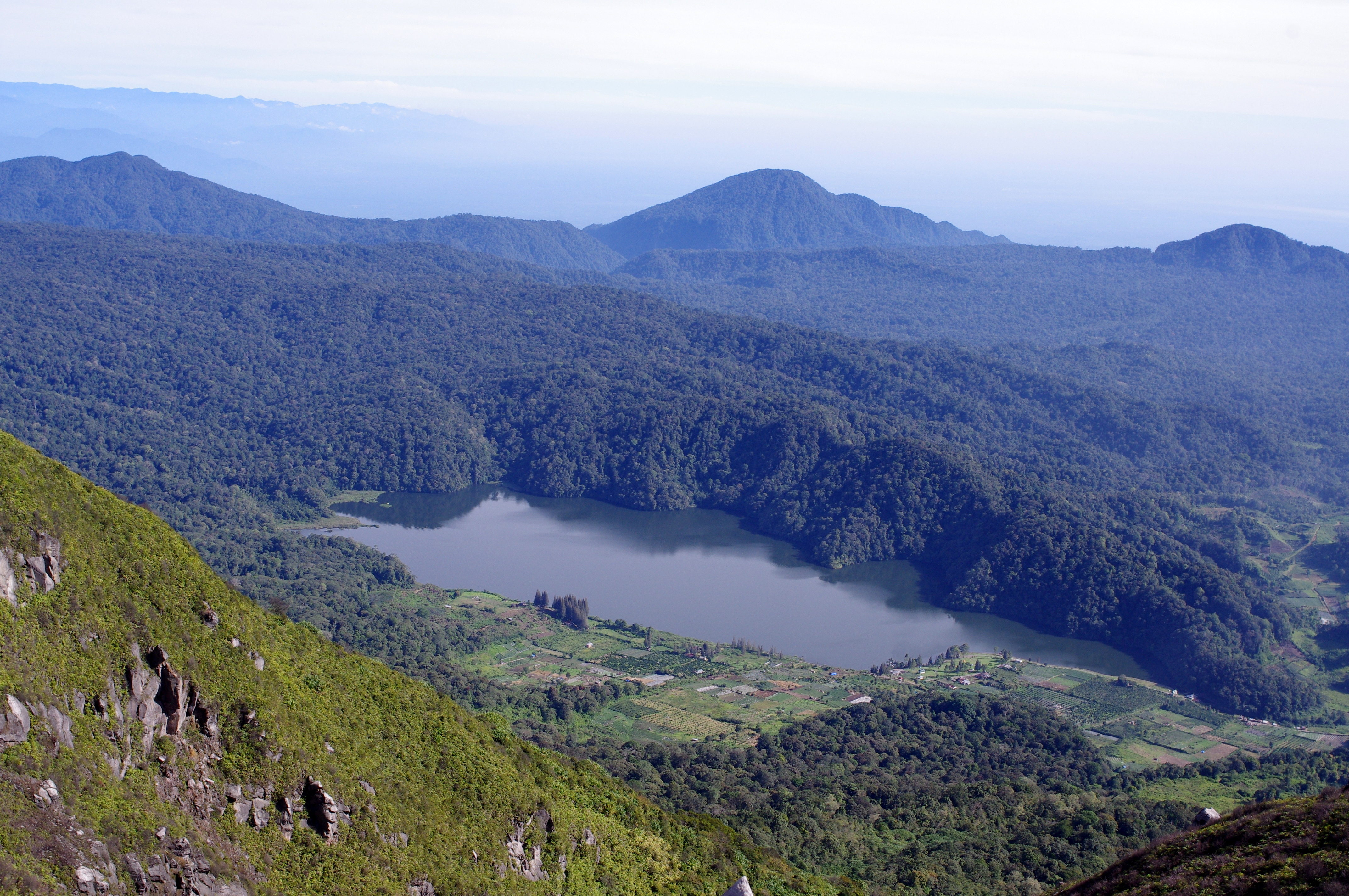 Lau Kawar Lake is located in Karo Regency, North Sumatra, Indonesia